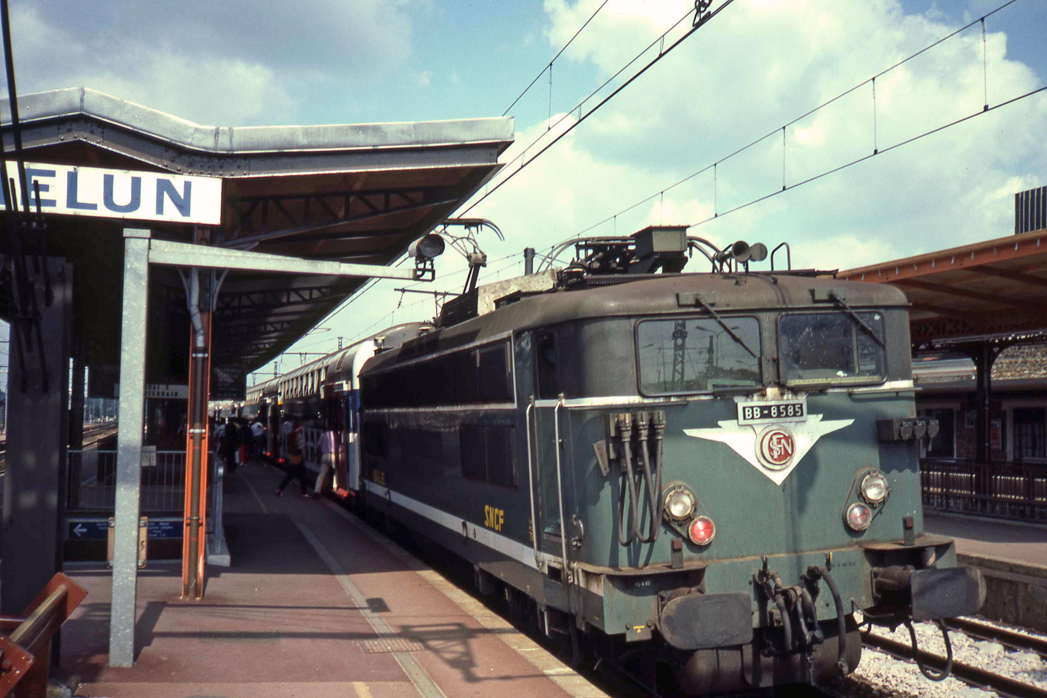 BB 8585 loc pulling a suburban doubledeck train in Melun (Seine-et-Marne, France).